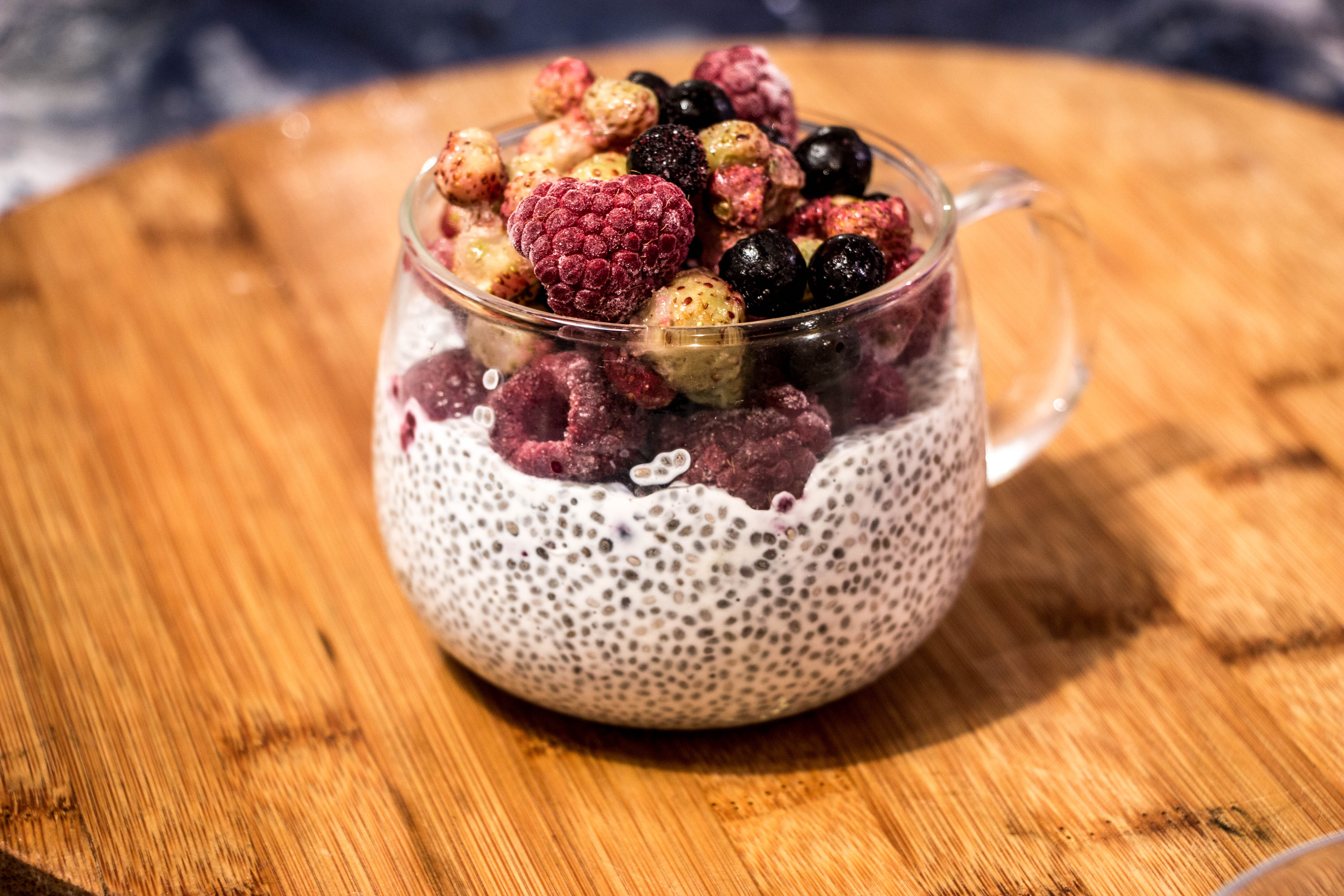 Chia seed dessert with raspberries